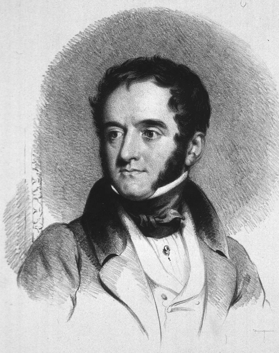 John Elliotson (29 October 1791 – 29 July 1868)